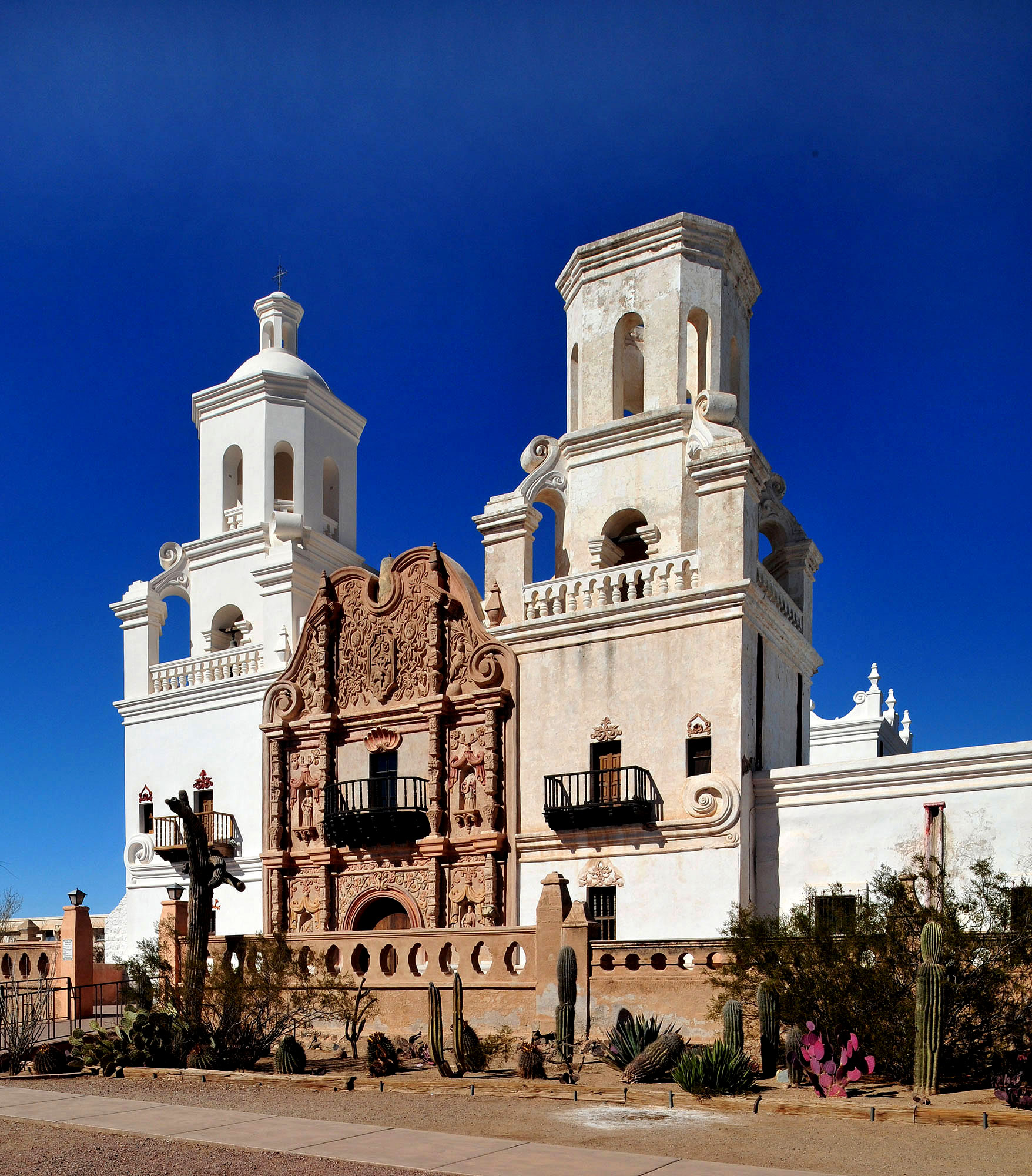 San Xavier del Bac Mission, south of Tucson, which was founded as a Catholic mission by Father Eusebio Kino in 1692. Construction of the current church began in 1783 and was completed in 1797. Following Mexican independence in 1821, San Xavier became part of Mexico. With the Gadsden Purchase of 1854, the Mission joined the United States. Constructed of low-fire clay brick, stone and lime mortar, the entire structure is roofed with masonry vaults, making it unique among Spanish Colonial buildings within U. S. borders. Exterior preservation work begun in 1989. Its restoration team is removing the earlier coating of cement plaster, repairing the historic brick beneath, and re-finishing the exterior surface with a traditional lime plaster.